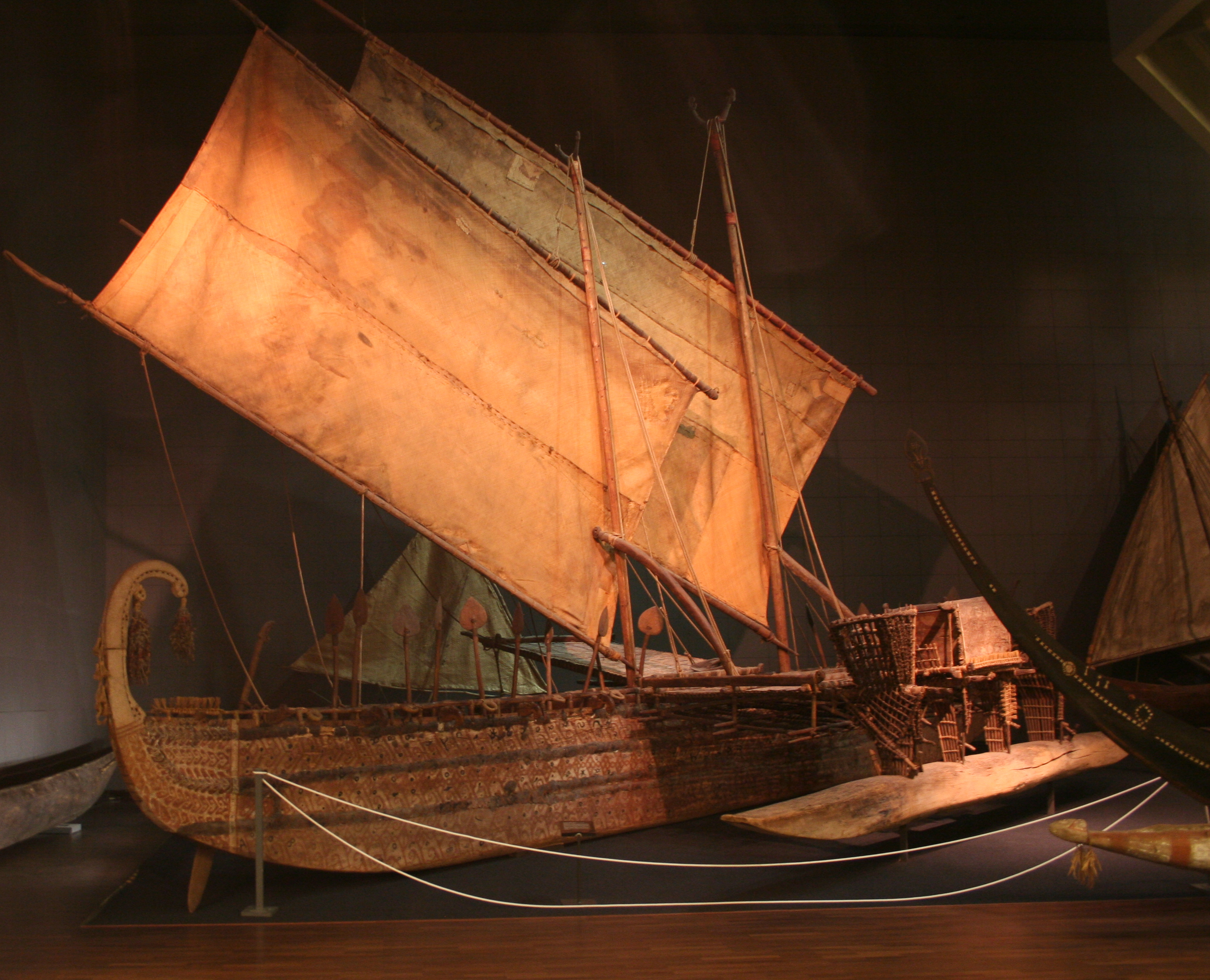 Ethnological Museum Berlin